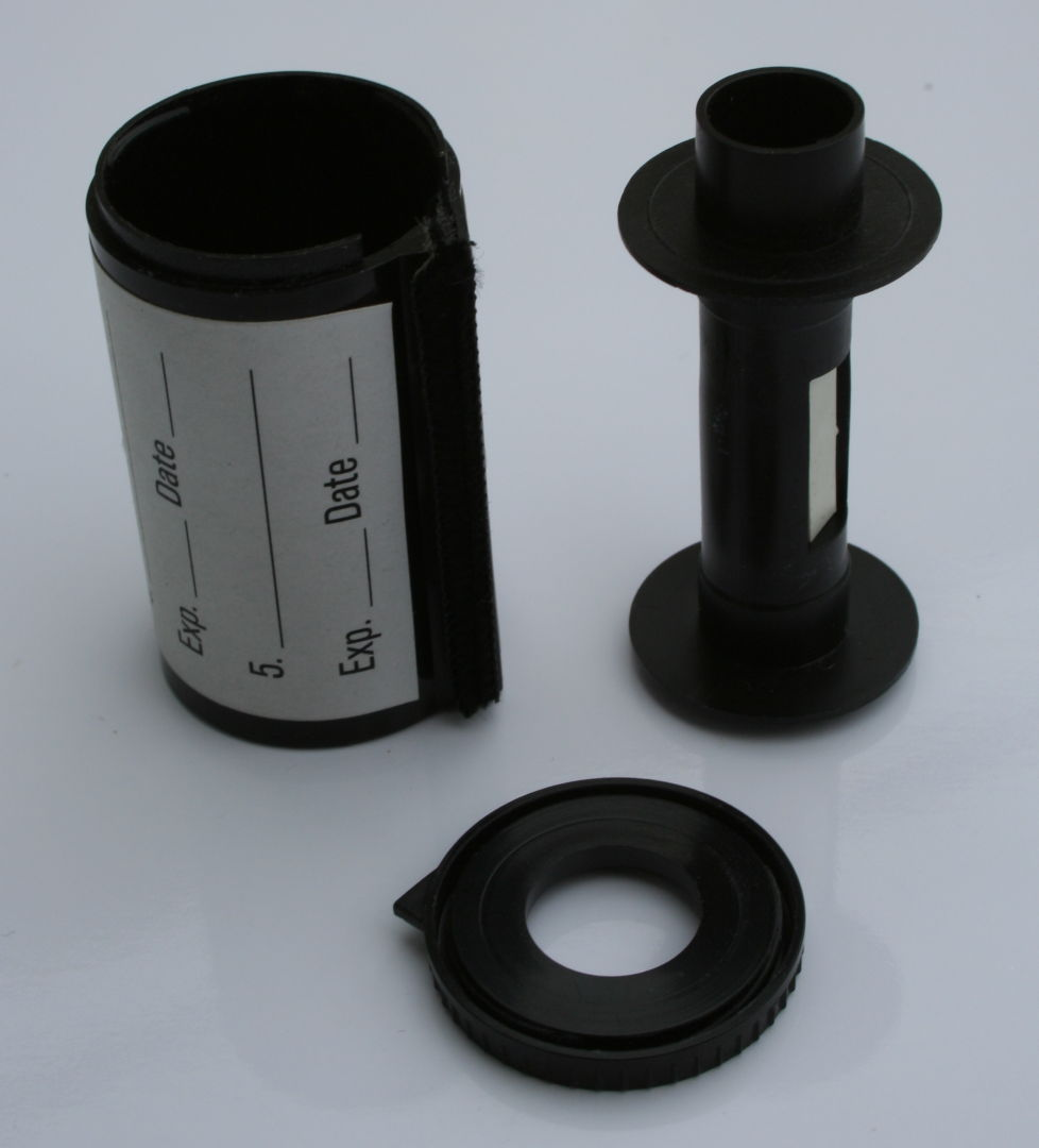 re-usable 135 film cartridge